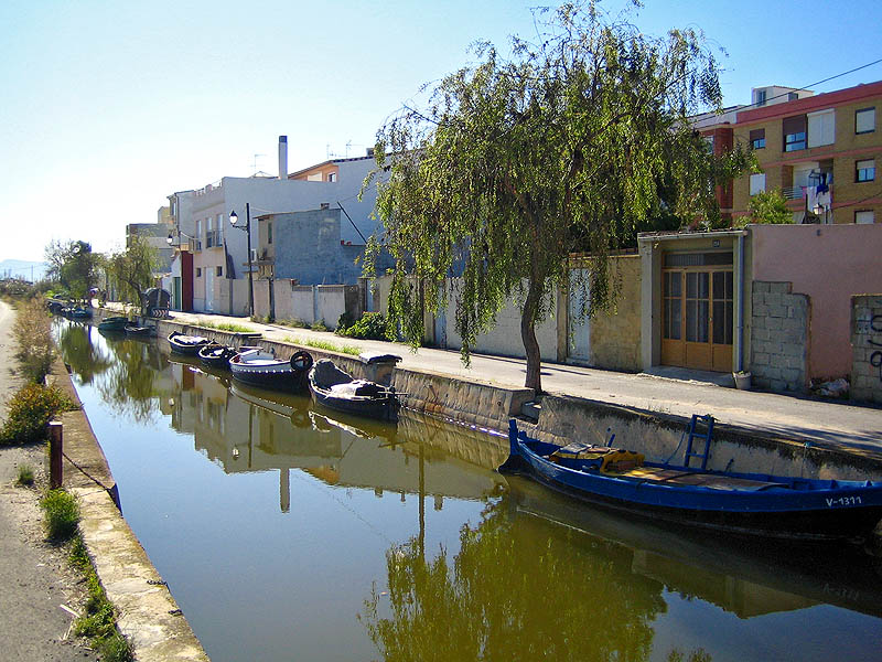 Village of El Palmar, part of the Valencia municipality, Spain.